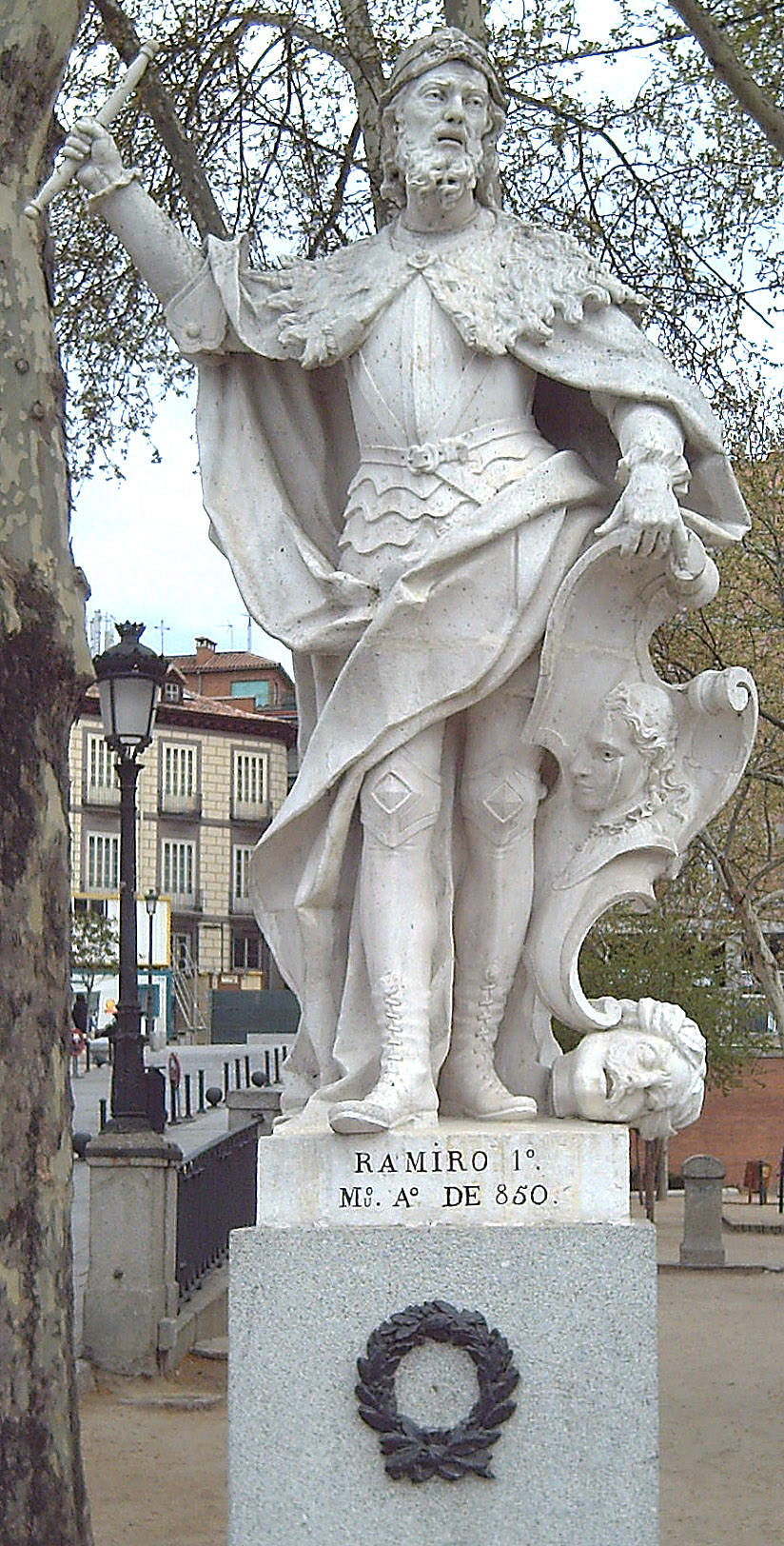 Depicted person: Ramiro I of Asturias (791?–850).